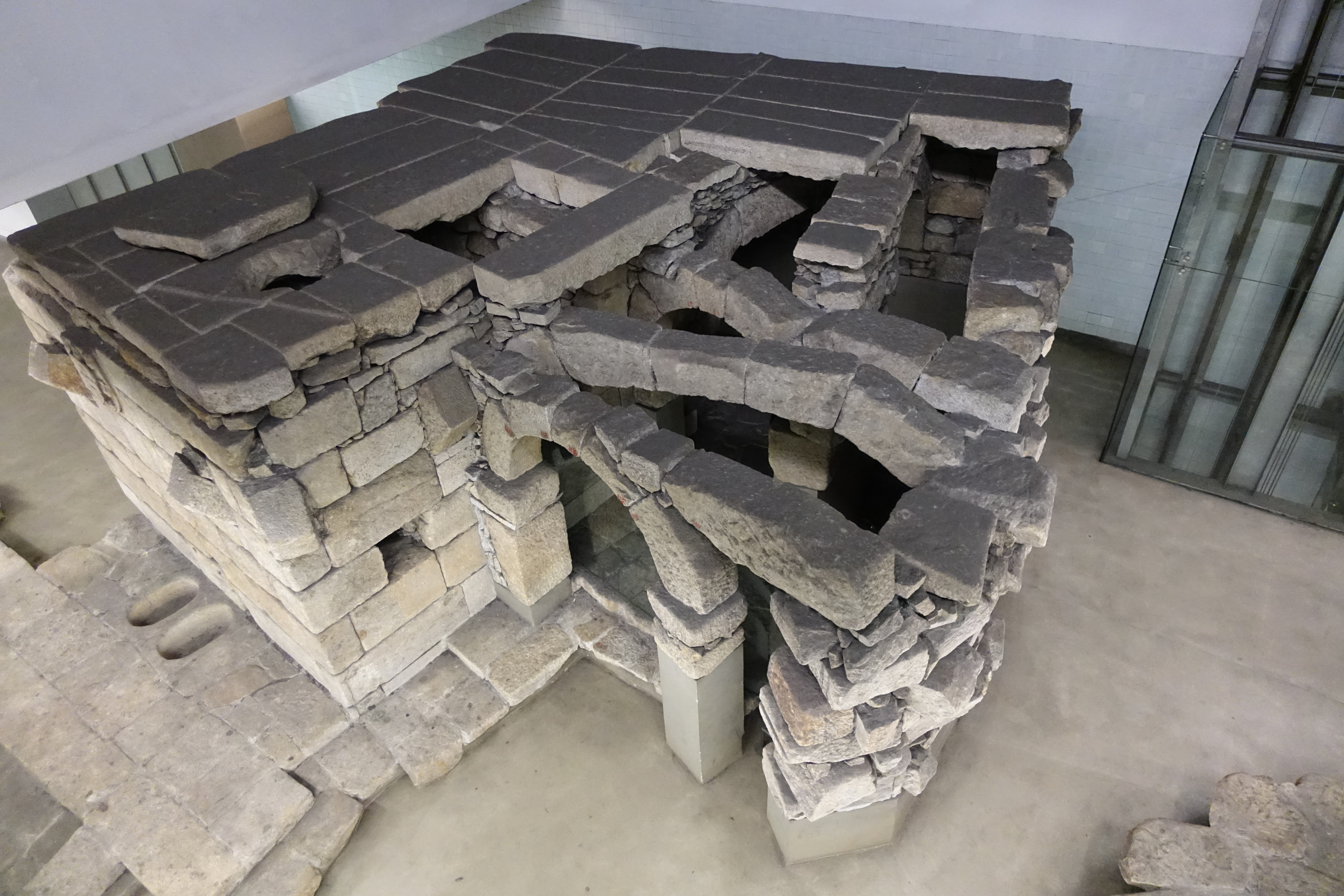 Campo de Vinte e Quatro de Agosto Porto Portugal.